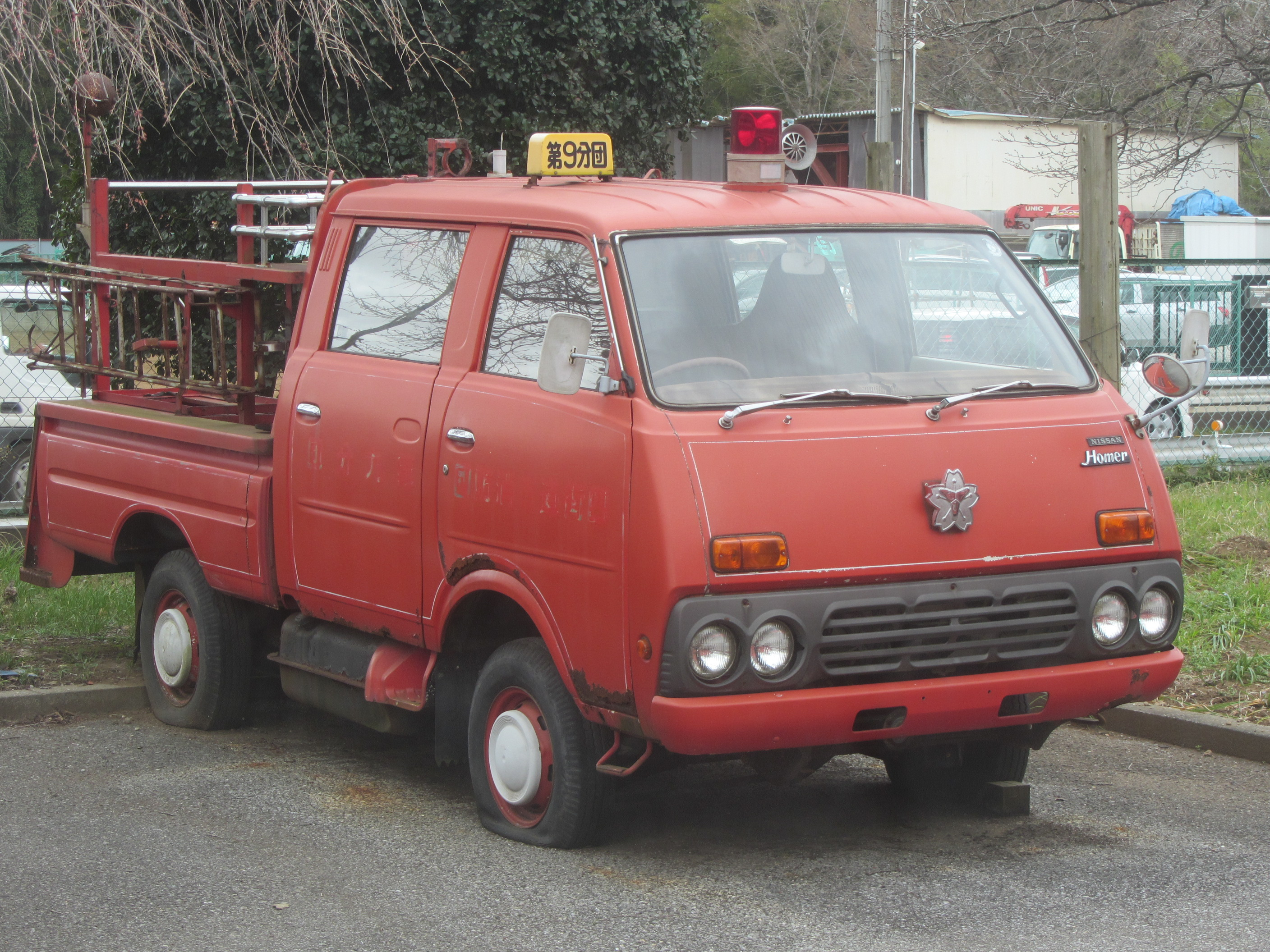 Nissan・Homer 2nd generation Small power pump loading car(Fire Engine).March 2012. Takoji135 took a picture in Yotsukaido City Fire Museum, Chiba Prefecture.